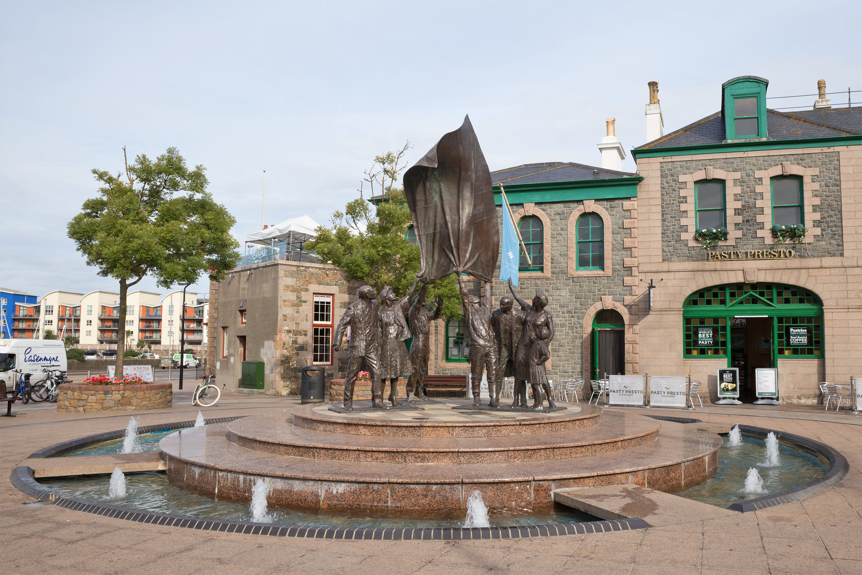 Saint Helier, Island of Jersey, Fountain with monument at Liberation SquareEsperanto: Fontana monumento sur la Liberation Square en la urbo Saint Helier de la insulo Jersey